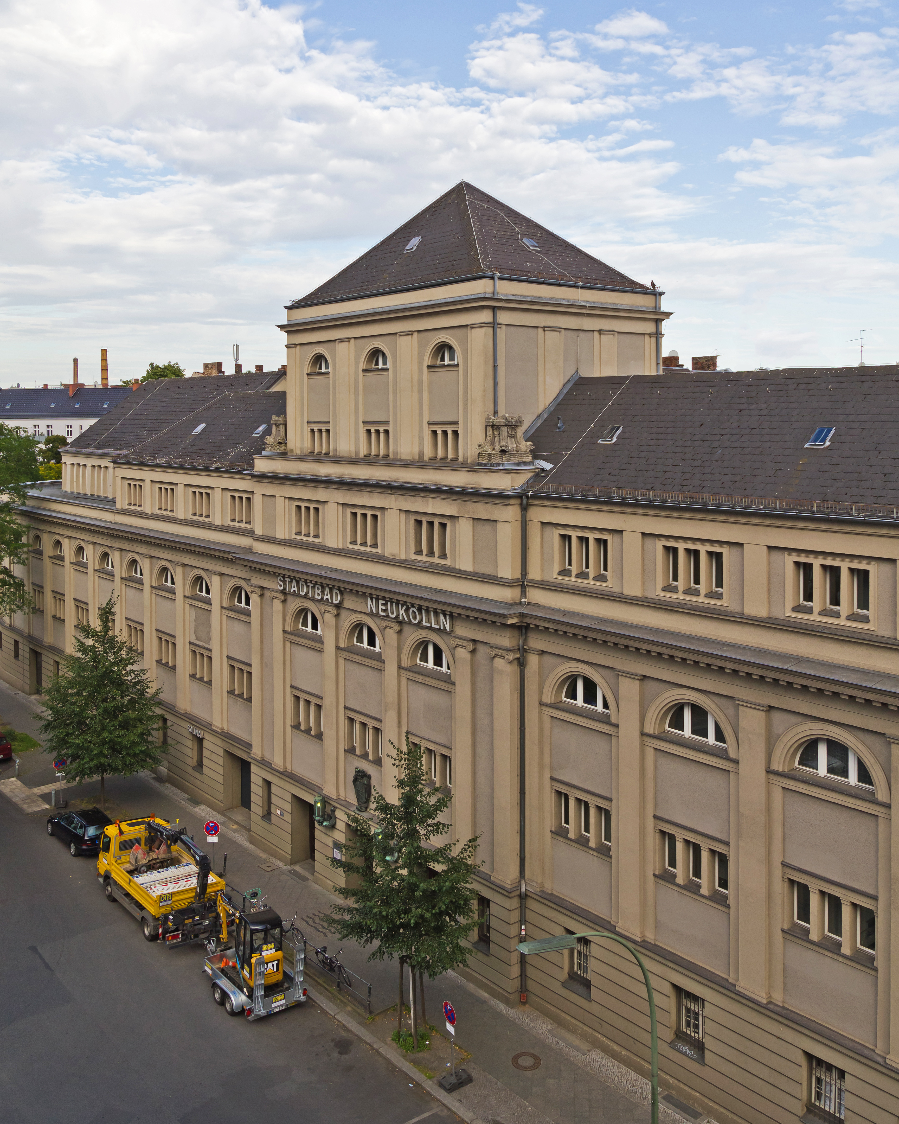 The Neukölln Bathhouse (historical indoor swimming pool) in Berlin, Germany